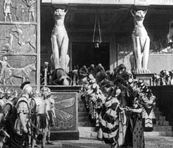 Film stills from Cabiria (1914)